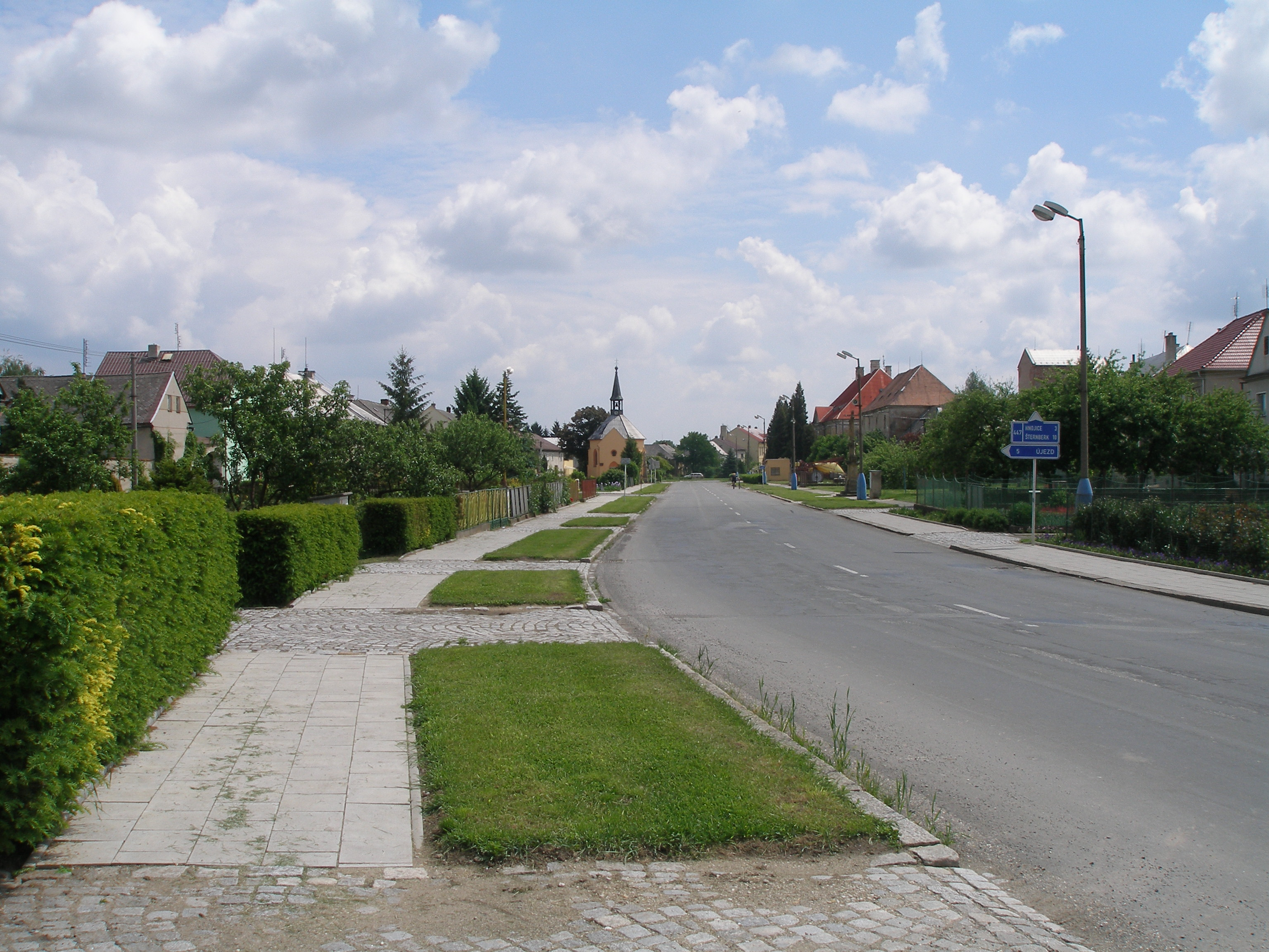 Žerotín (Olomouc district) - the square from the West